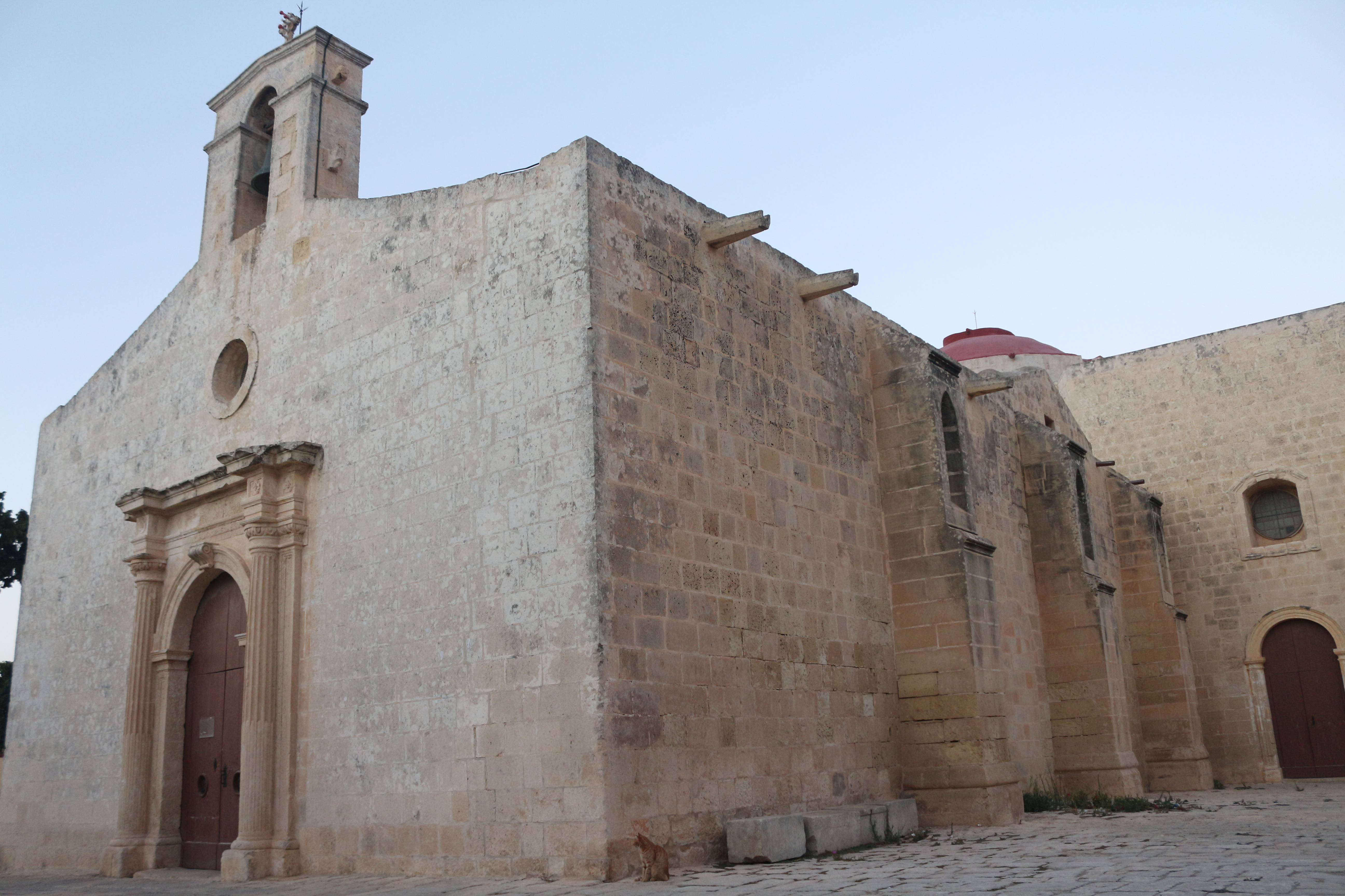 Chapel of St. Gregory and St. Catherine This media is about Maltese cultural property with inventory number 01932.